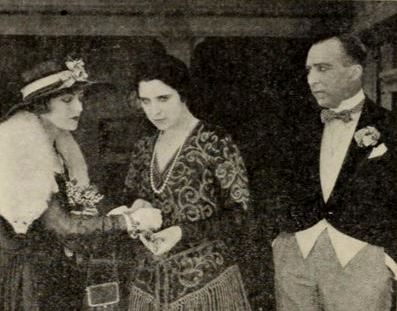 Still from the American drama film The Turn of the Wheel (1918) with Violet Heming, Geraldine Farrar, and Hassard Short, on page 36 of the September 14, 1918 Exhibitors Herald.